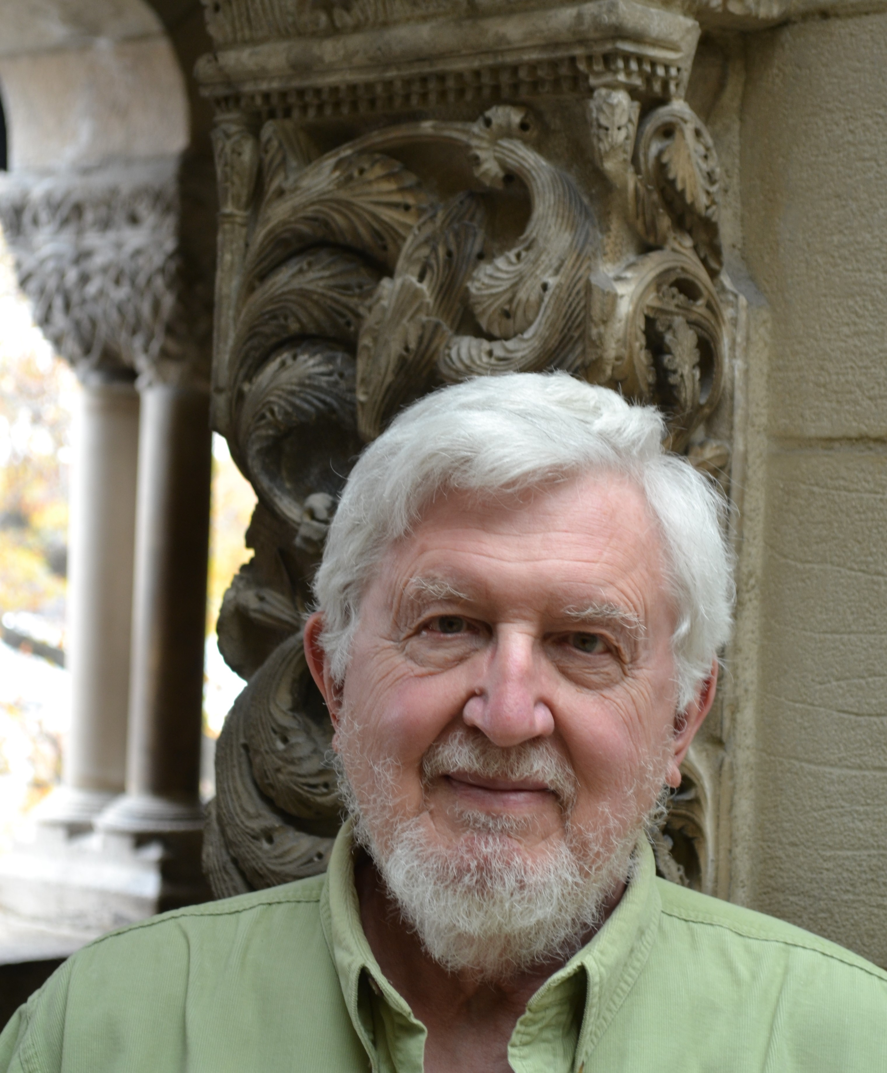 Poet Jared Carter at the Cloisters in New York City in 2015.